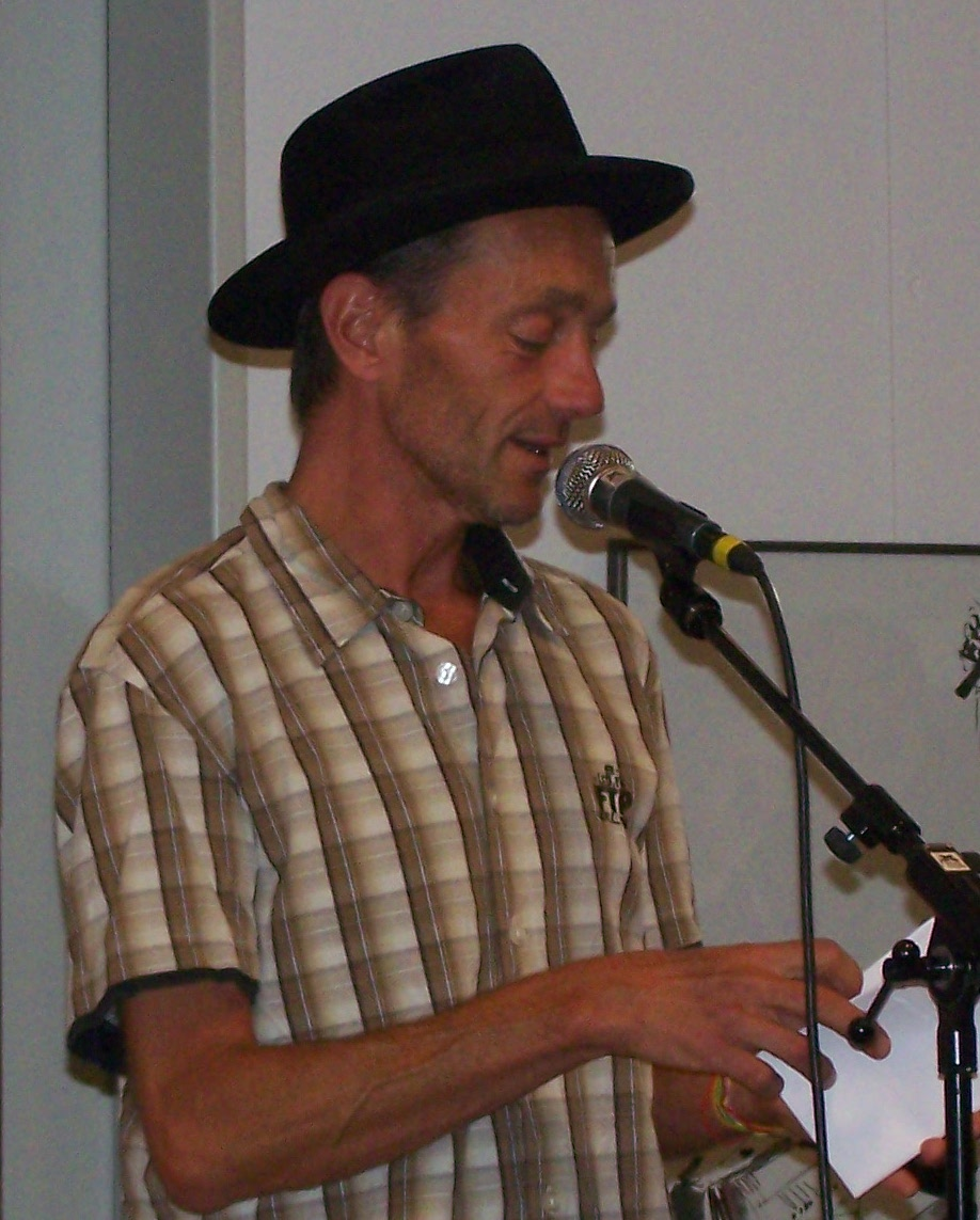 Michael Sailer